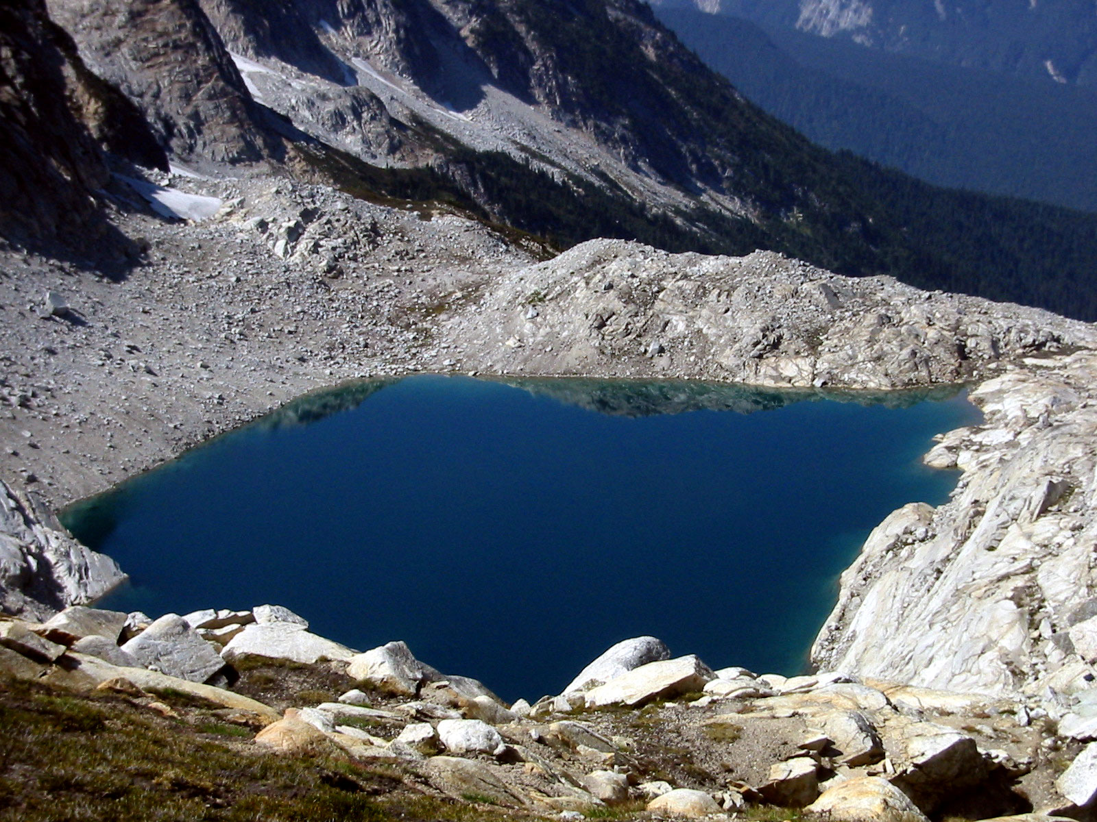 Triad Lake 6560 feet, Cirque Mountain (left), Glacier Peak (right)